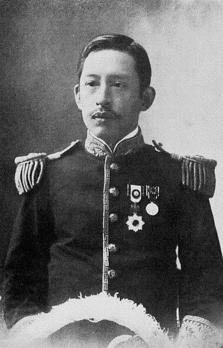 Tomotake Minamiiwakura